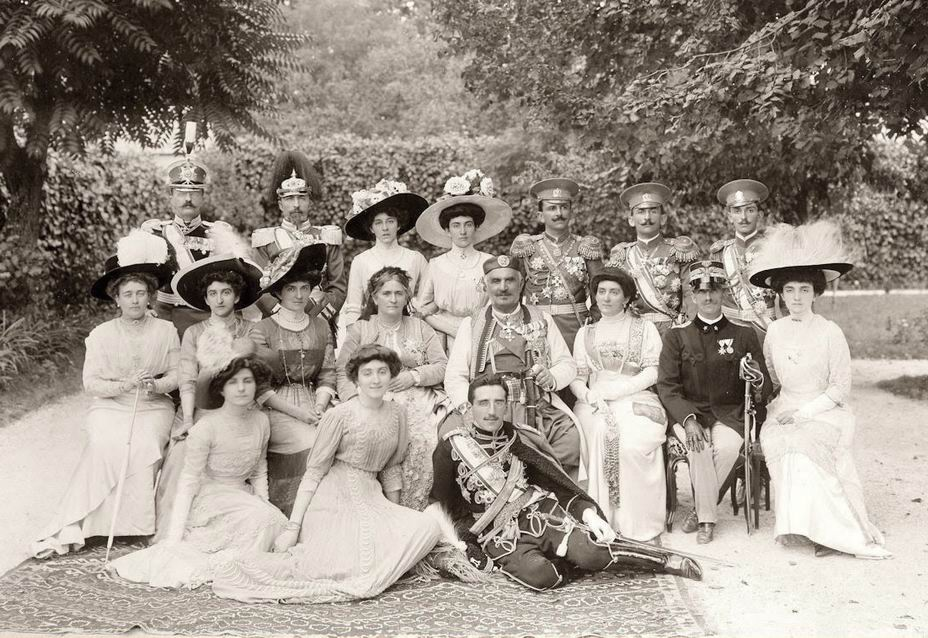 Coronation of Nicholas I of Montenegro. Nicholas I of Montenegro with his wife, sons, daughters, grandchildren and sons- and daughters-in-law back row : GD Piotr Nikolaievich of Russia, Franzjos Battenberg, princess Vjera, princess Ksenija, Kronprinz Danilo, prince Mirko, prince Petar. middle row : Milica-Jutta (wife of Kronprinz Danilo), princess Ana, princess Jelena, queen Milena, king Nikola, princess Milica, king Vittorio-Emanuele III of Italy, princess Natalija (wife of prince Mirko). seated : Jelena of Serbia, Marina Petrovna (daughter of Milica and GD Piotr), Aleksandar of Serbia. Srpski (latinica): Krunisanje kralja Nikole - kralj Nikola sa suprugom, sinovima, ćerkama, unucima, zetovima i snajom (28. avgust 1910) zadnji red: Petar Nikolajevič (suprug princeze Milice), Franc Josif od Batenberga (suprug princeze Ane), princeza Vjera, princeza Ksenija, prestolonaslednik Danilo, princ Mirko, princ Petar. srednji red: Milica (Juta od Meklenburga, supruga prestolonaslednika Danila), princeza Ana, princeza Jelena, kraljica Milena, kralj Nikola, princeza Milica, italijanski kralj Vitorio Emanuele III Savojski, princeza Natalija (supruga princa Mirka) sede: princeza Jelena od Srbije, Marina Petrovna (ćerka Milice i Petra Nikolajeviča), princ Aleksandar od Srbije